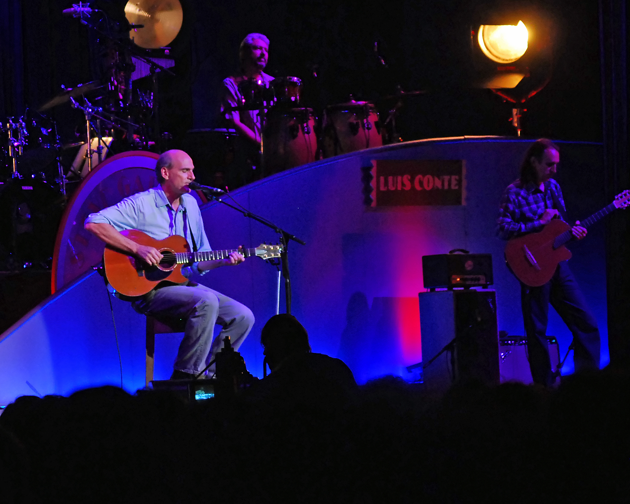 James Taylor and his "Band of Legends" opened the holiday weekend with concerts on July 3rd and 4th at Tanglewood in Lenox, MA. The Band of Legends includes: Luis Conte - percussion, Walt Fowler - horns, Steve Gadd - drums, Larry Goldings - keyboards, Jimmy Johnson - bass, Michael Landau - guitar, David Lasley, Arnold McCuller, Kate Markowitz and Andrea Zonn - vocals and Lou "Blue Lou" Marini - horns.